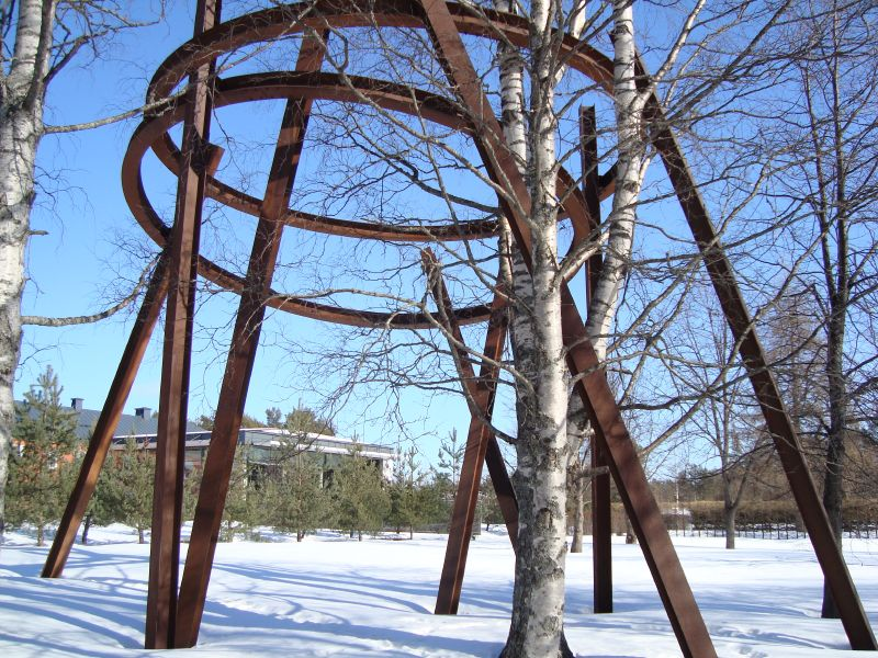 Umeå sculpture park/Sweden with Umea Prototype (1999/2000) by Serge Spitzer.